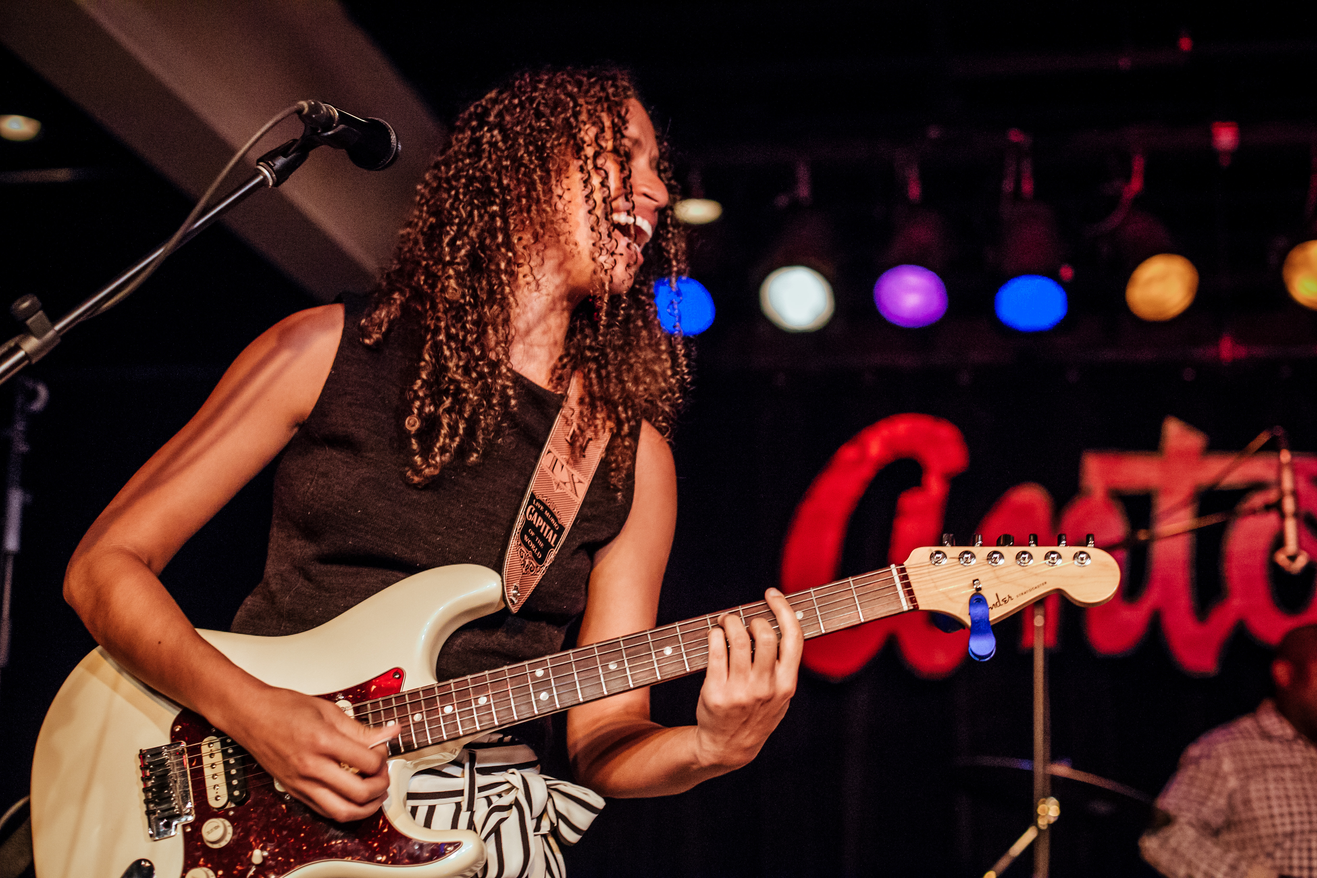 Jackie Venson at Antone's in Austin, TX in September of 2016